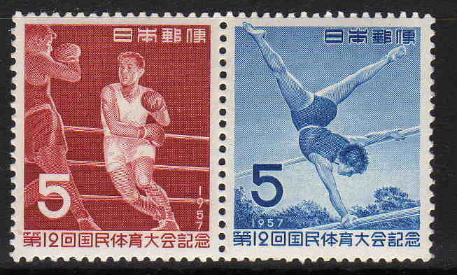 12Th National Sports Festival of Japan on Stamp